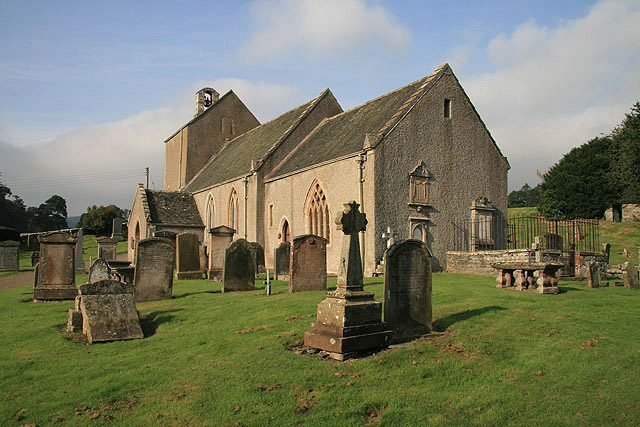 Stobo Parish Church